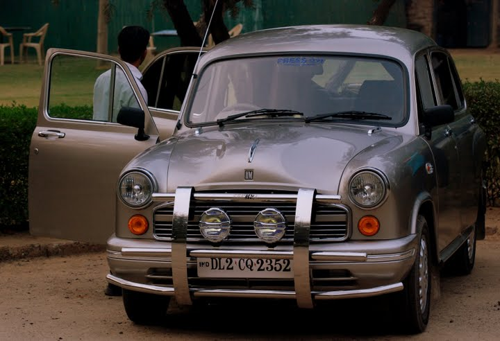 Hindustan Ambassador Grand 1800 ISZ owned by VOA correspondent Steve Herman in New Delhi.